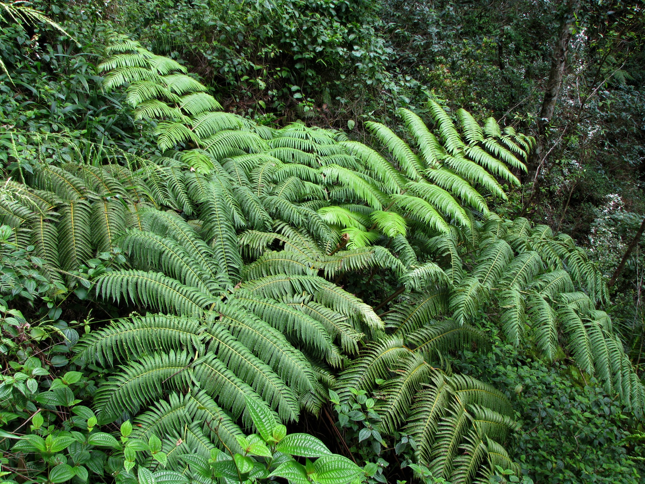 Hāpuʻu or Hāpuʻu meu Cibotiaceae Endemic to the Hawaiian Islands ʻAiea Loop Trail, Oʻahu NPH00010